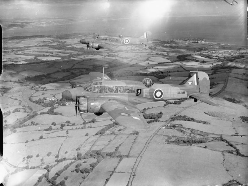 Aircraft of the Royal Air Force 1939-1945- Avro 652a Anson. Two Anson Mark Is, K6285 and N9742, of No. 321 (Dutch) Squadron RAF based at Carew Cheriton, Pembrokeshire, flying north-west of Tenby. K6285 still bears the unit code letters ('MW') of No. 217 Squadron, to which it formerly belonged.